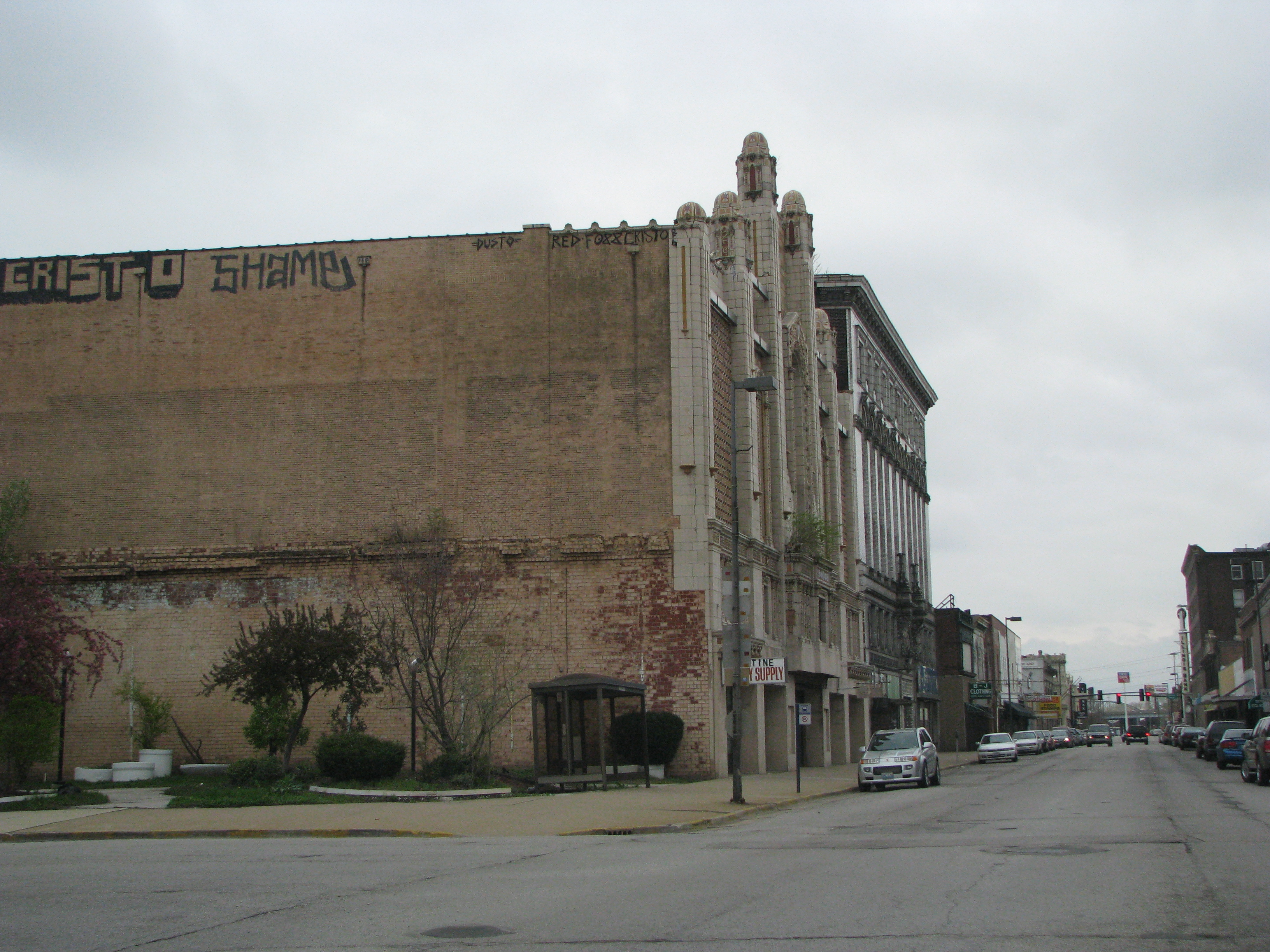 The Majestic Theatre located at Collinsville and St. Louis Avenues in East St. Louis.